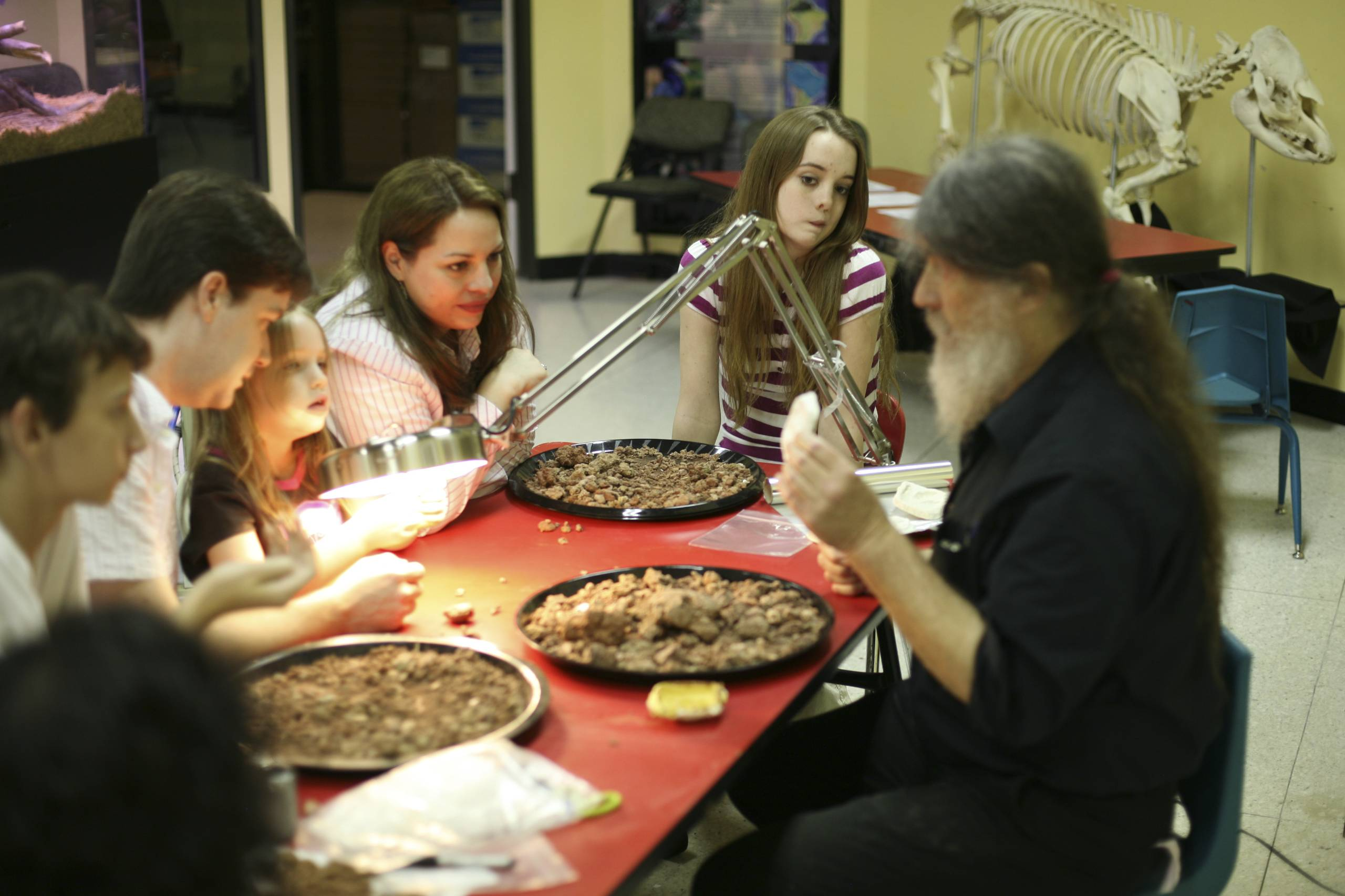 Lets be clear here. The person having the most fun in this photo is Dr. Bob Bakker of the museum teaching all of us about searching for fossils. Those are mounds of 3 Million year old dirt and we looked for bone fragments and bug poop. Seriously. From: The Houston Museum of Natural Science Leonardo Exhibit features Leonardo, the most perfectly fossilized plant-eating dinosaur ever discovered. Dinosaur Mummy CSI: Cretaceous Science Investigation opens Sept. 26, 2008. More Leonardo photos on Facebook and a full set of Dinosaur Leonardo on Picasa.